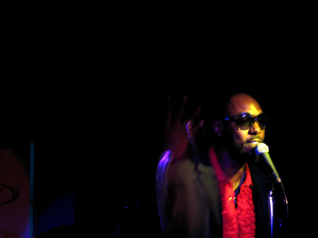 Sleepy Brown live at the Bodega Event, Theatre District, Boston, MA.